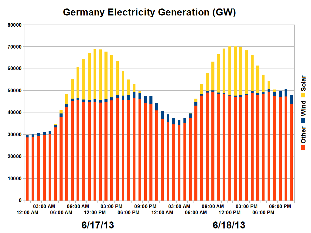 Germany electricity generation on June 17 and June 18, 2013. On the 17th, Germany produced 40,556 GWh from wind and 195,622 GWh from solar power, and on the 18th, 39,350 GWh from wind and 193,550 GWh from solar power. A peak of 23,073 GW was generated from solar power at 1:30 pm on June 17.